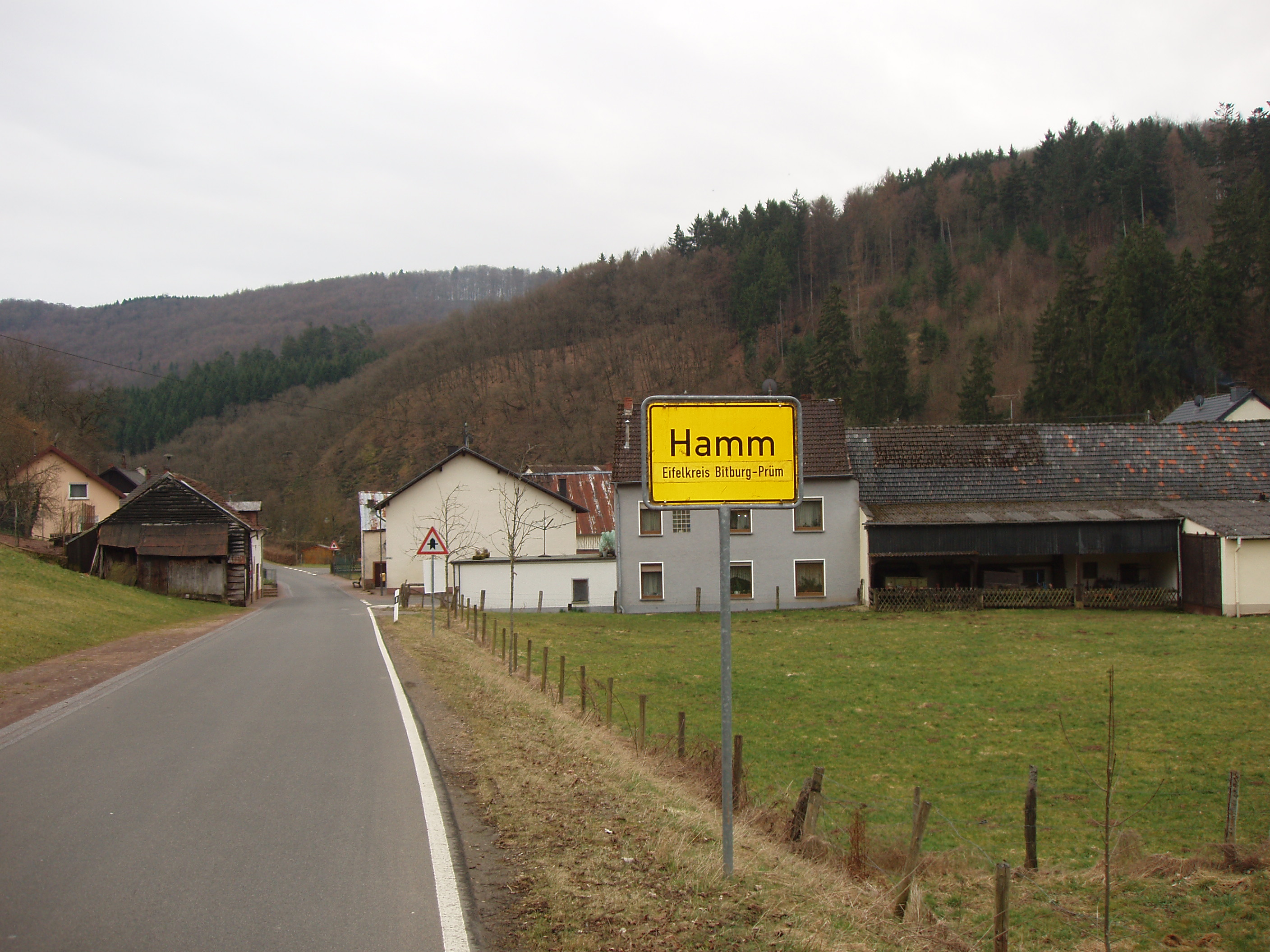 Entering Hamm, Bitburg-Prum